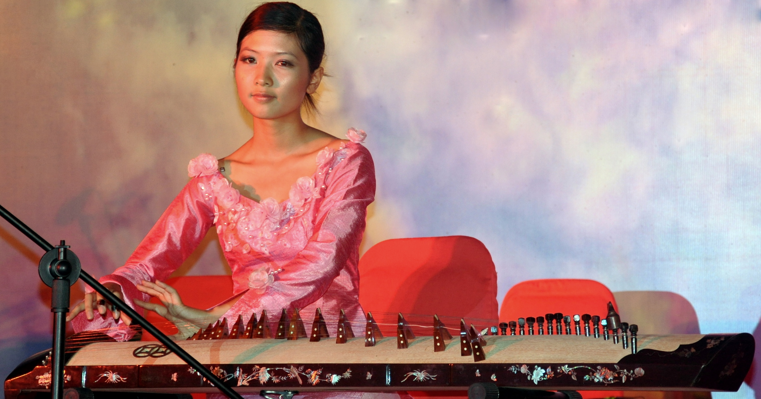 16-String Zither - Ðàn Tranh Dan Tranh is also known as Dan Thap Luc (Ðàn Thâ.p Lu.c - 16) with 16 strings. Its shape resembles a bamboo tube that has been sliced vertically in half. Dan tranh has mostly been seen performed by female musicians in Vietnamese traditional dress (Ao Dai). When play, the instrument is placed in front of the musician, who uses her right hand to regulate the pitch and vibrate, while plucking the strings with her left hand. Dan Tranh's strings are supported by movable wooden bridge for tuning. There are Dan Tranh that have more than 16 strings. Location: National Museum of Vietnamese history, Hanoi